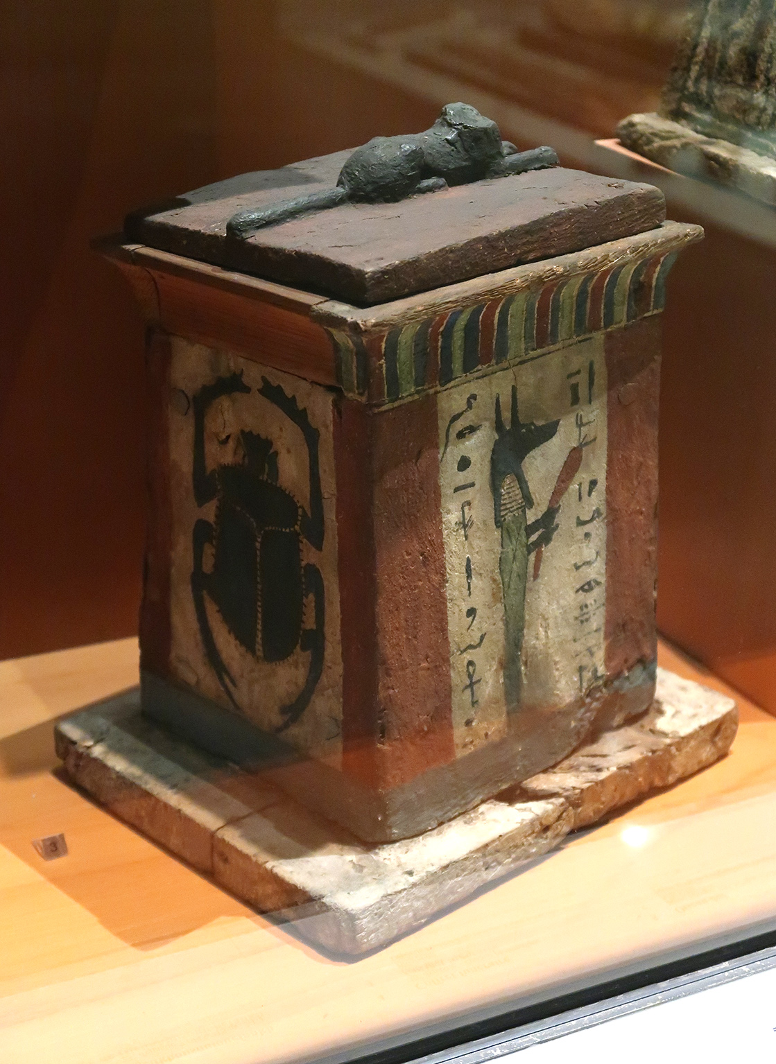 Ushabti box. Third Intermediate Period, Egyptian 22nd-23rd Dynasty (c. 1069--664 BCE). Painted wood. H 29.5 cm. Musée des Beaux-Arts de Lyon. Inv. H 1356